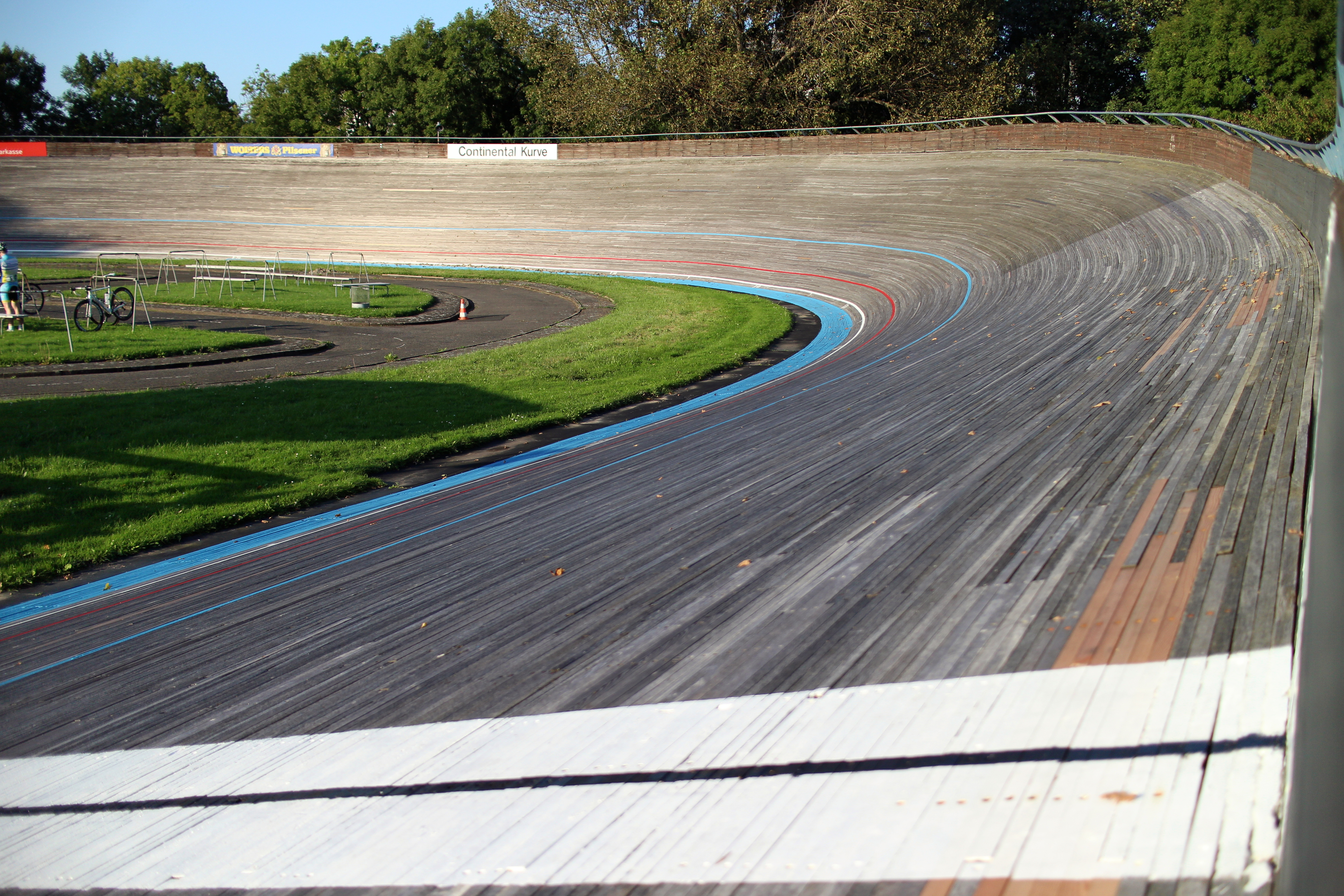 Outdoor velodrome in Hanover